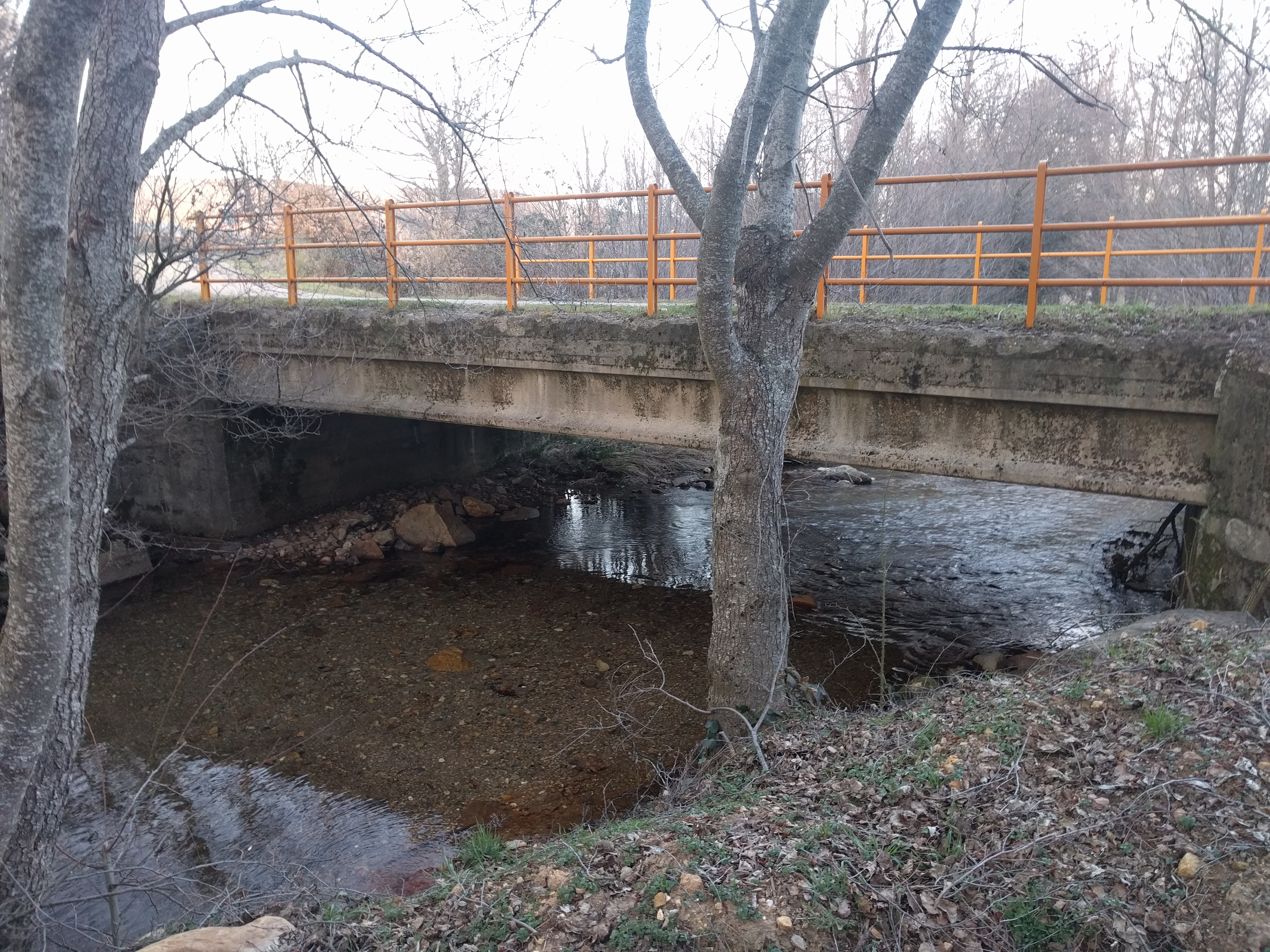 Puente de "el cura" en Valdavido